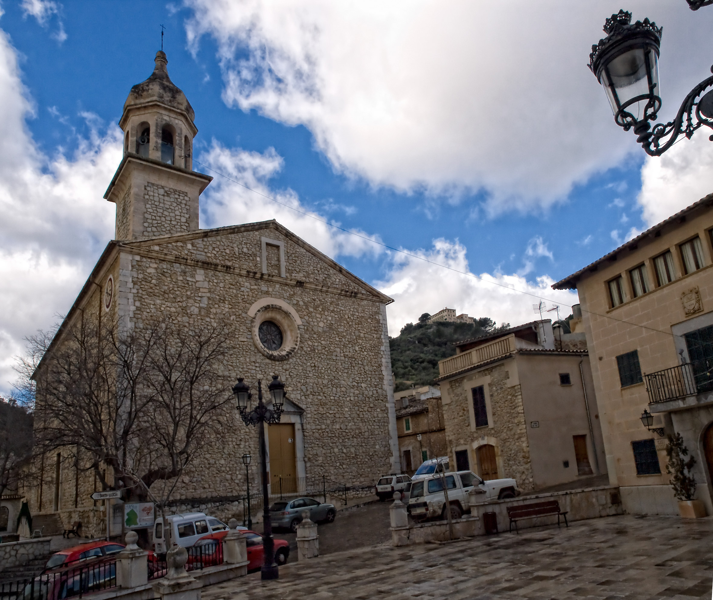 Mancor de la Vall church (Mallorca, Spain)